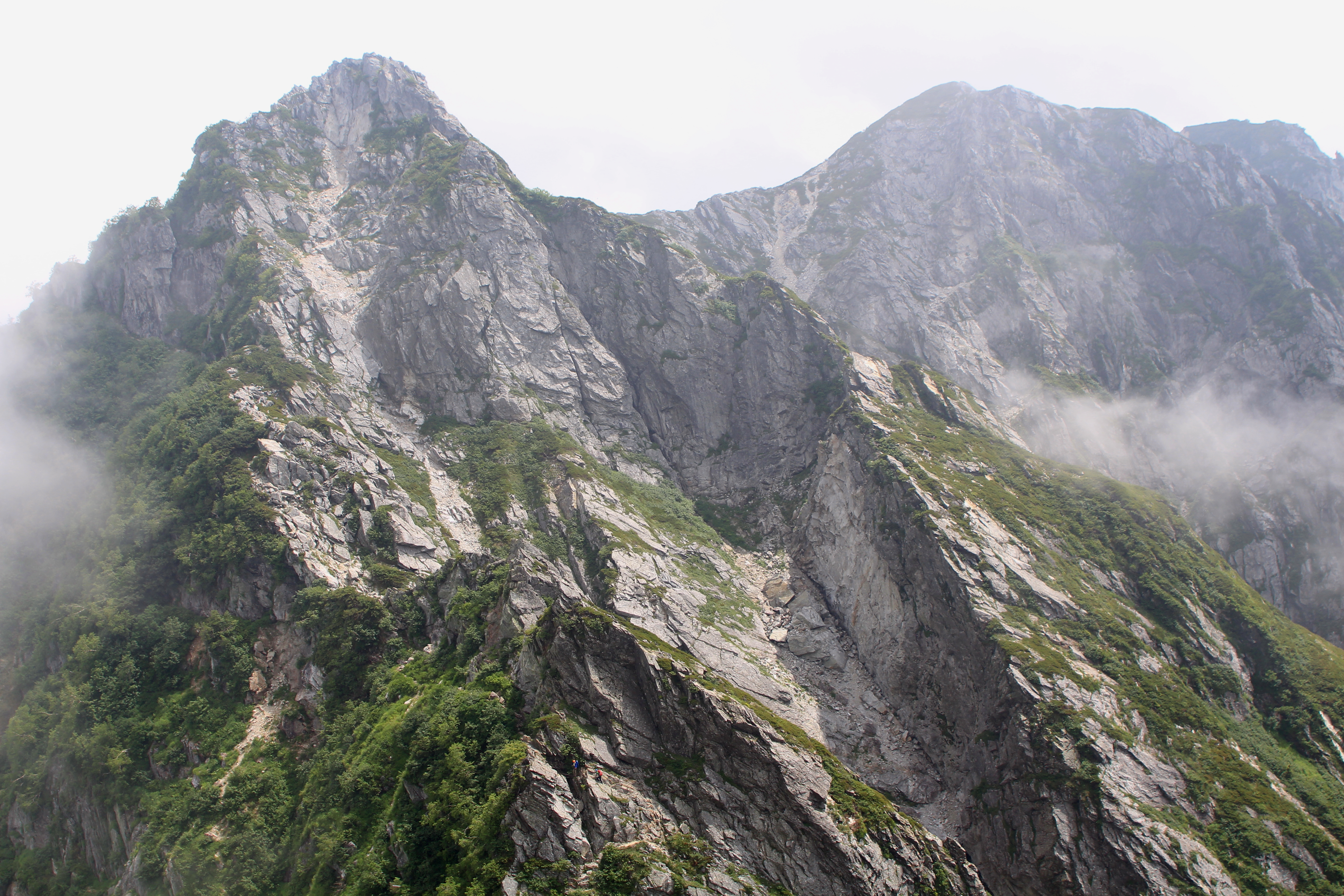 2nd northern peak of Mount Kaerazu seen from 1st peak in Ushirotateyama Mountains (Hida Mountains), Hakuba, Nagano Prefecture and Kuribe, Toyama Prefecture, Japan.